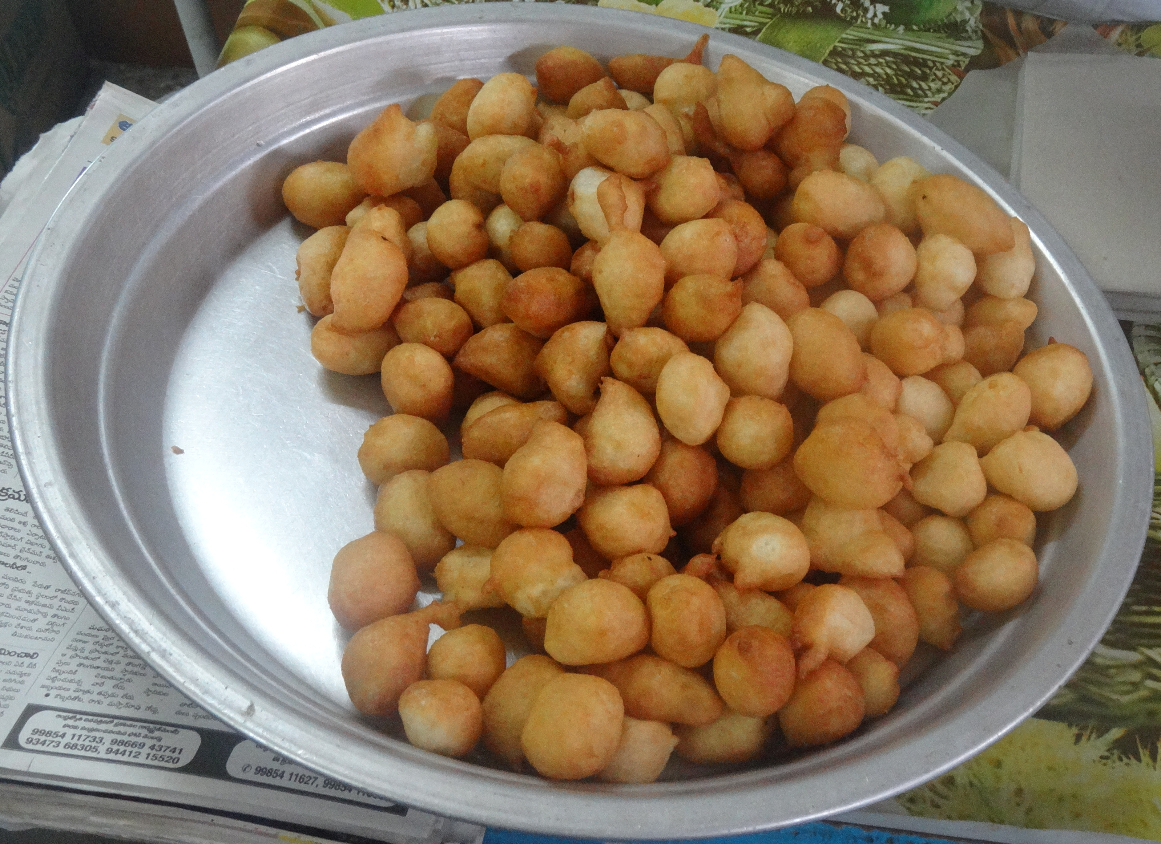 Punugulu / Punukkulu is a Andhra snack and common street food. Picture taken in Palakollu, West Godavari District, India.